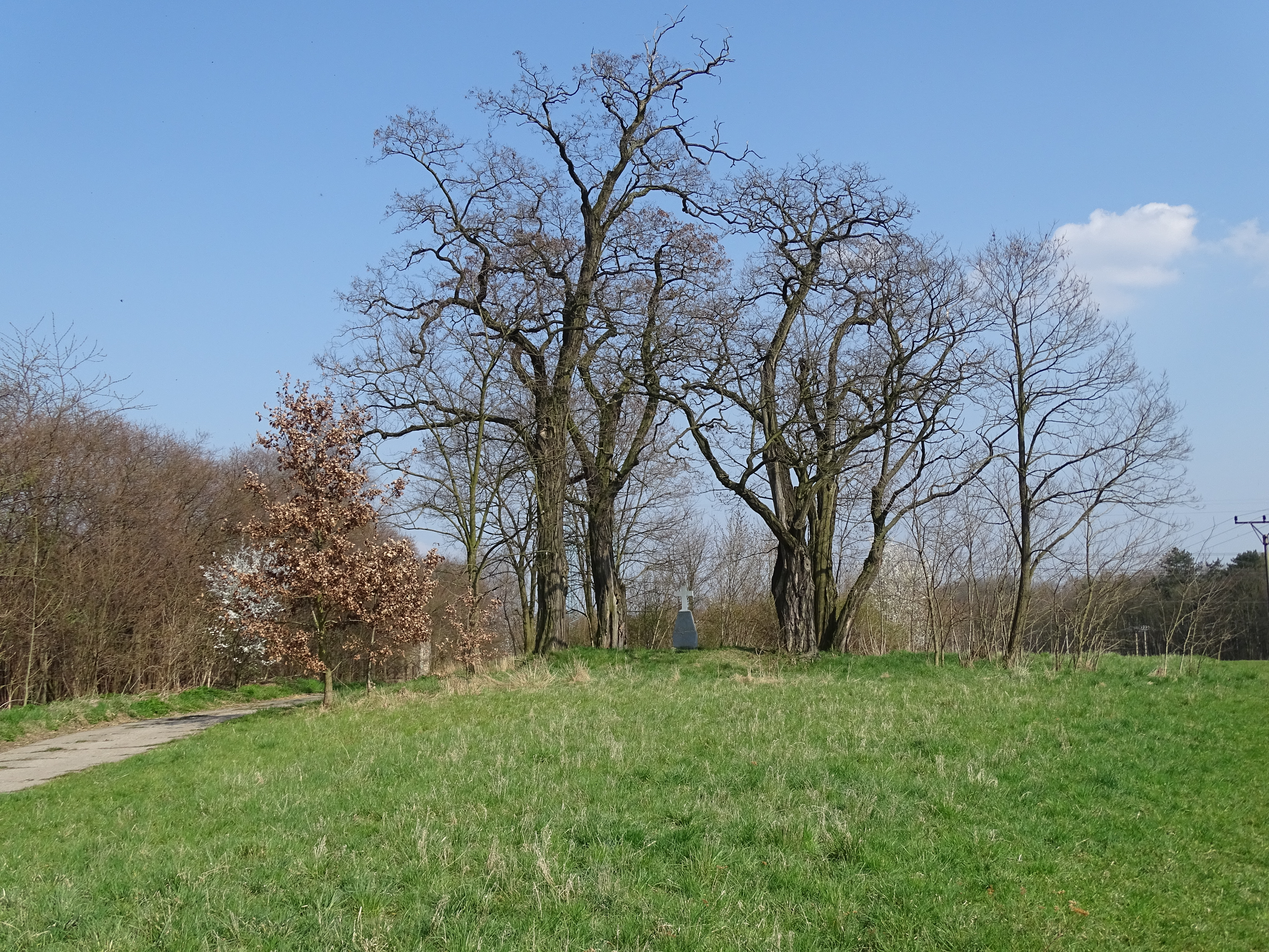 Prague-Horní Počernice, Czech Republic. Xaverov, trees with a cross, seen from Ve Žlíbku street.